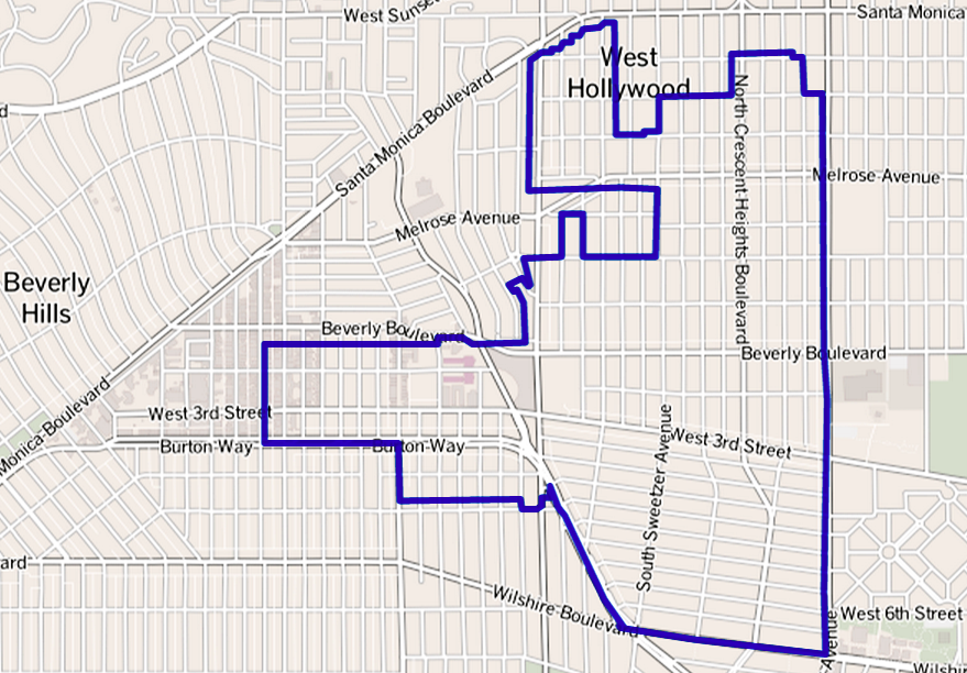 Map of the Beverly Grove neighborhood in Los Angeles, California. This map may be incomplete, and may contain errors. Don't rely solely on it for navigation.